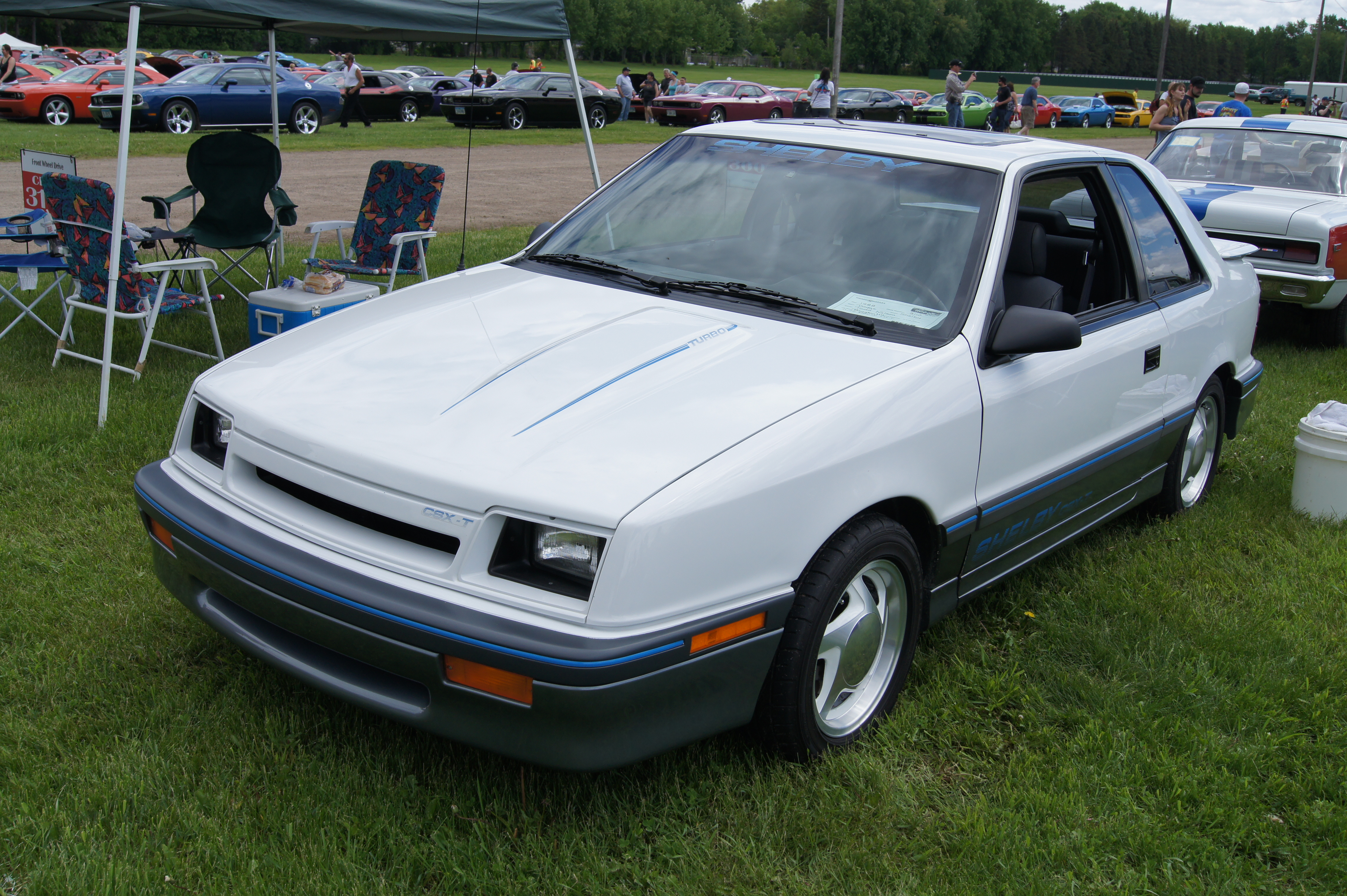 29th Annual Midwest Mopars in the Park Car Show & Swap Meet Thousands of car pictures at the link below